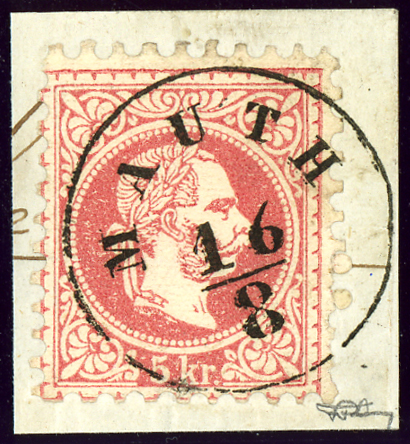 Austrian KK 5 kreuzer stamp on fragment, issue 1867, cancelled at MAUTH (Bohemia)